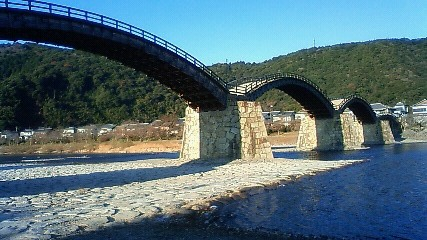 Kintai Bridge. Kintai Bridge, Iwakuni.